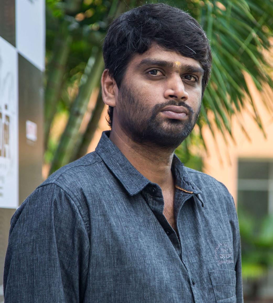 H. Vinoth at Theeran Adhigaaram Ondru Press Meet